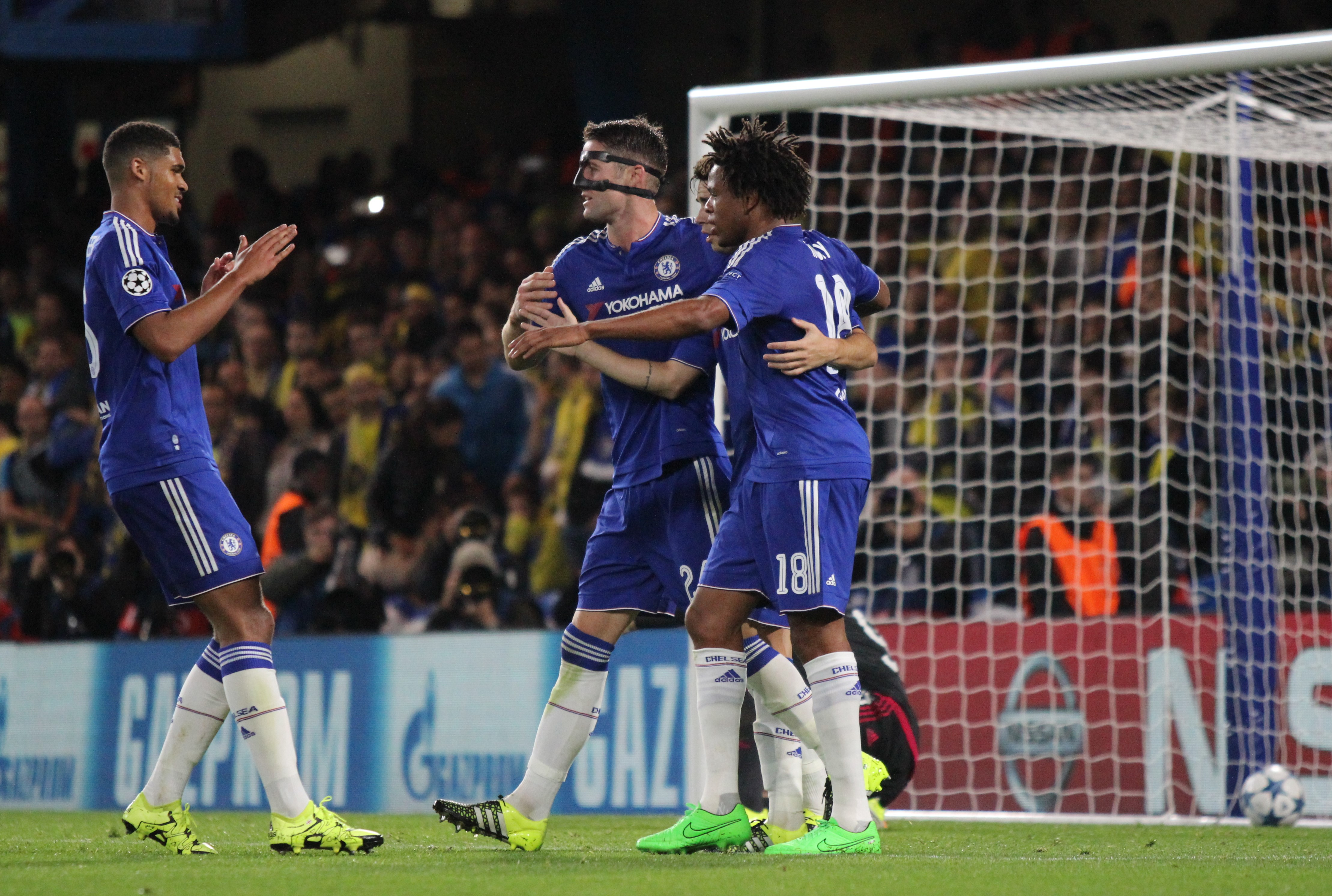 Oscar of Chelsea celebrates his goal with his team mates during the game against Maccabi Tel-Aviv.